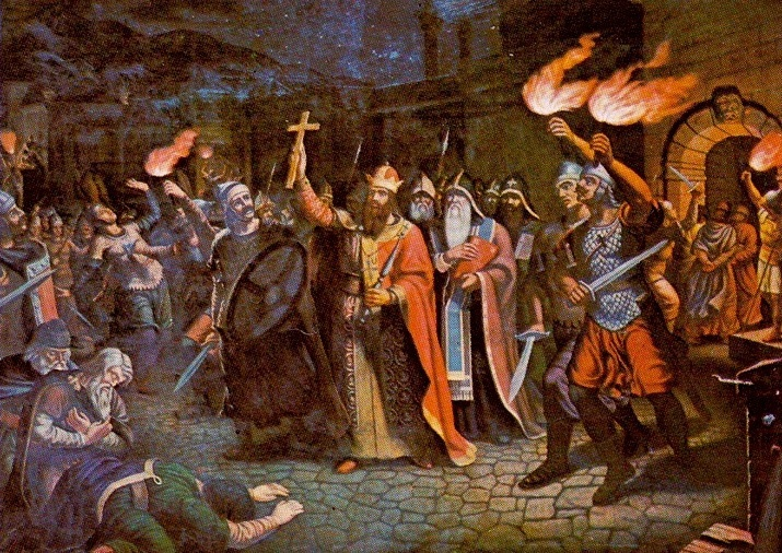 Boris crushes the boyar revolt, by Nikolai Pavlovich